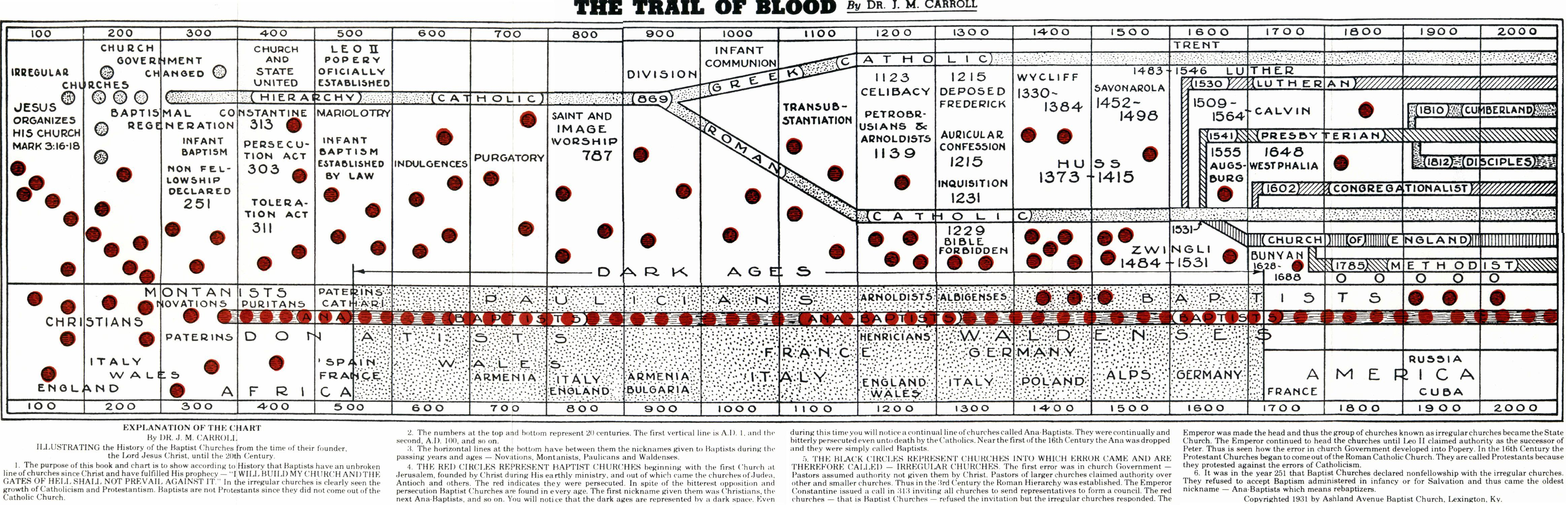 Landmarkism The Trail of Blood byJames Milton Carroll